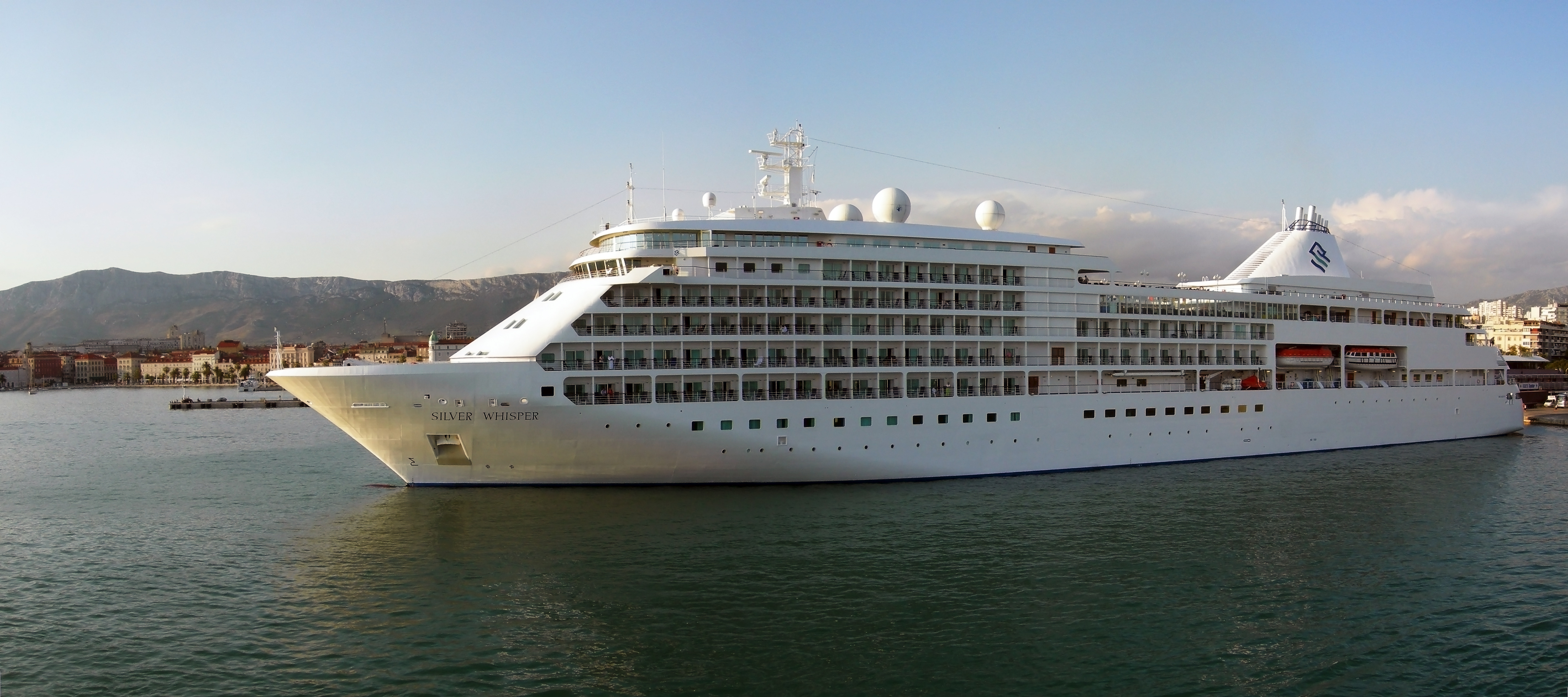 Silver Whisper at Split Harbour, CroatiaEdits: Photo is put togeher from 2 photos. White balance, levels, curves, noise reduction.